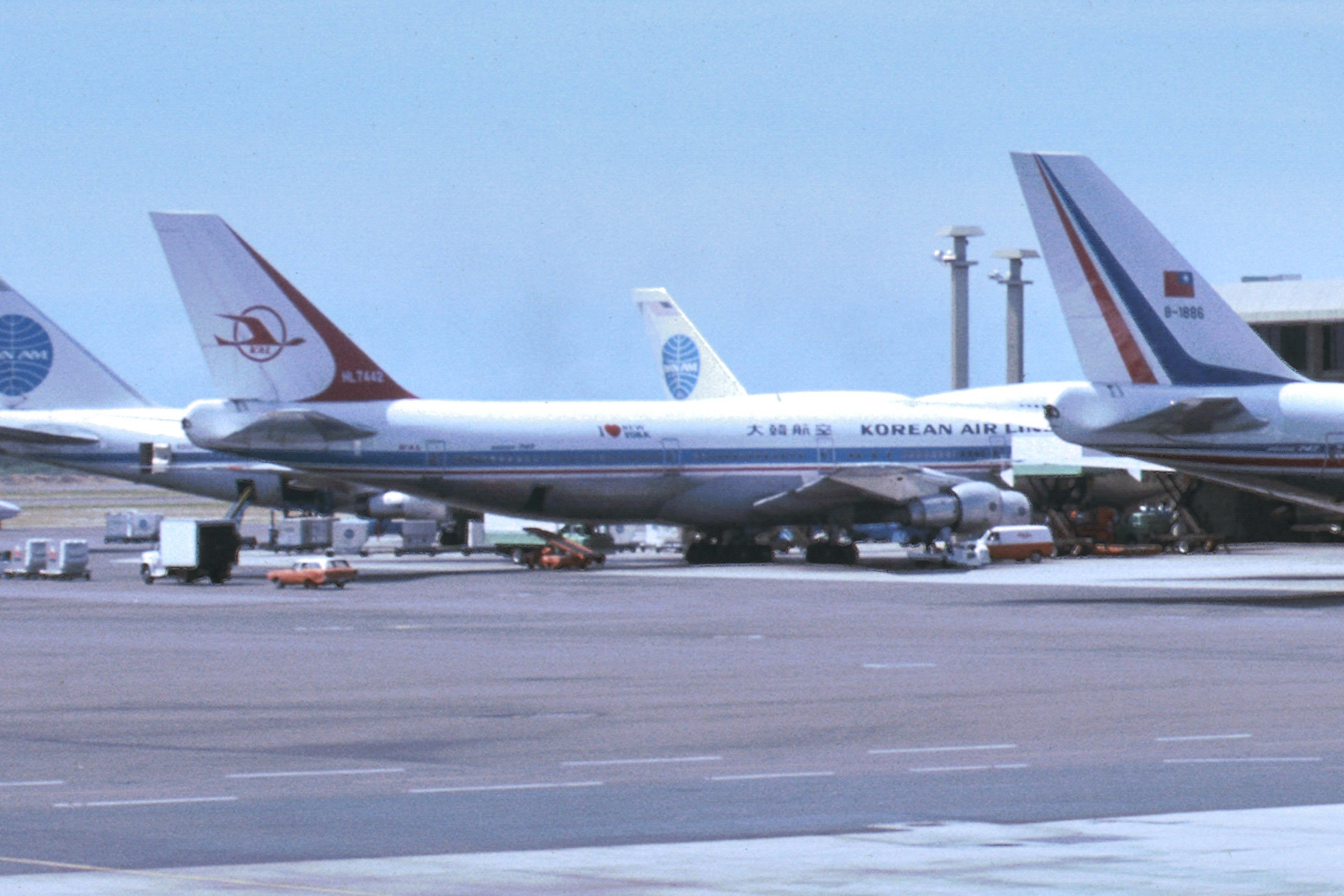 United States of America United States of America, Korean Air Lines HL7442 parked among other aircraft at Honolulu International Airport. This aircraft was shot down by a Soviet missile 1983-09-01 near Sakhalin Island when it left its assigned flight track. I recently found this picture when I scanned my old slides. The day can be +/- 2, year and month are correct.